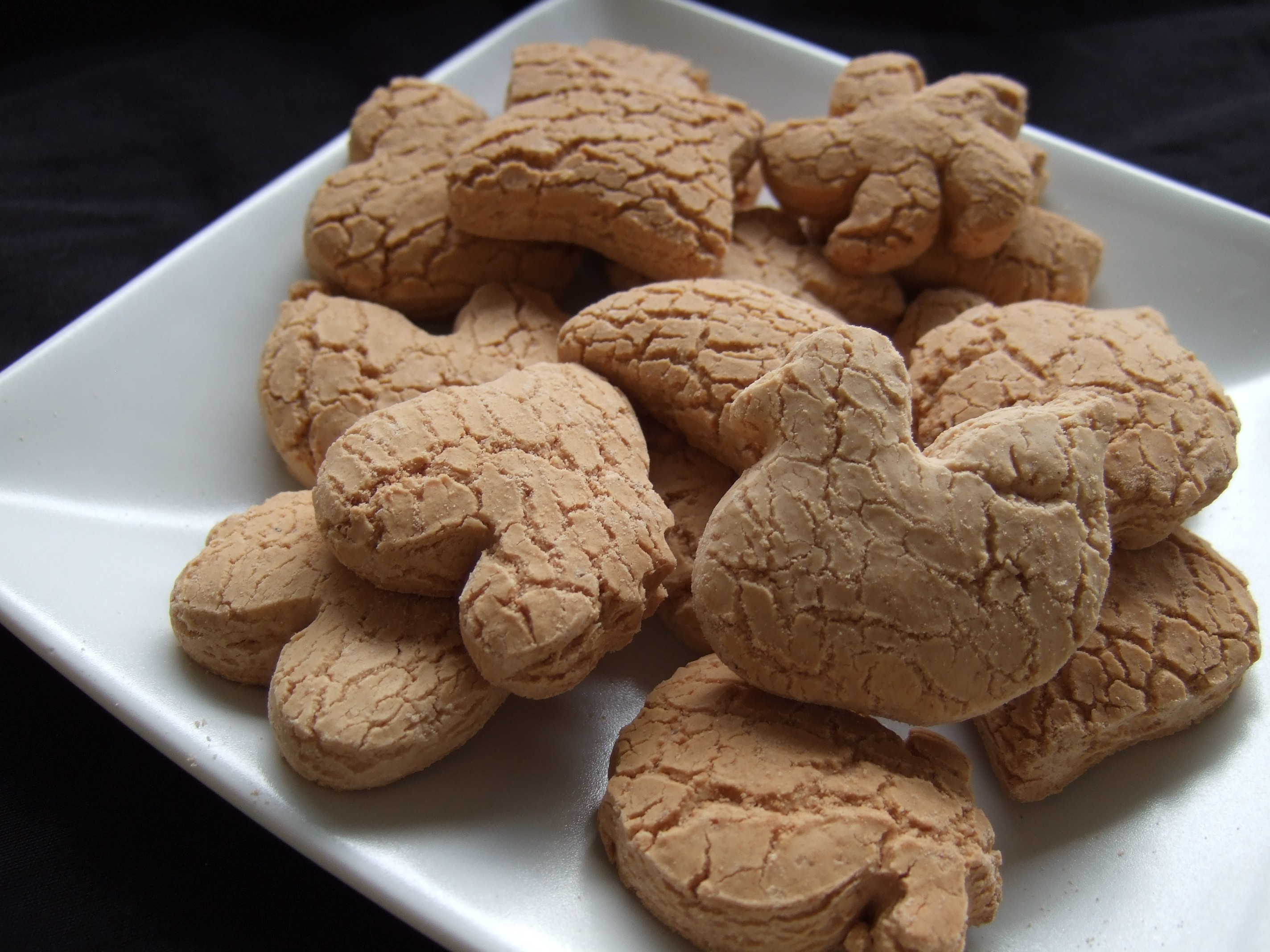 Kue bangkit, cookie made of sago flour